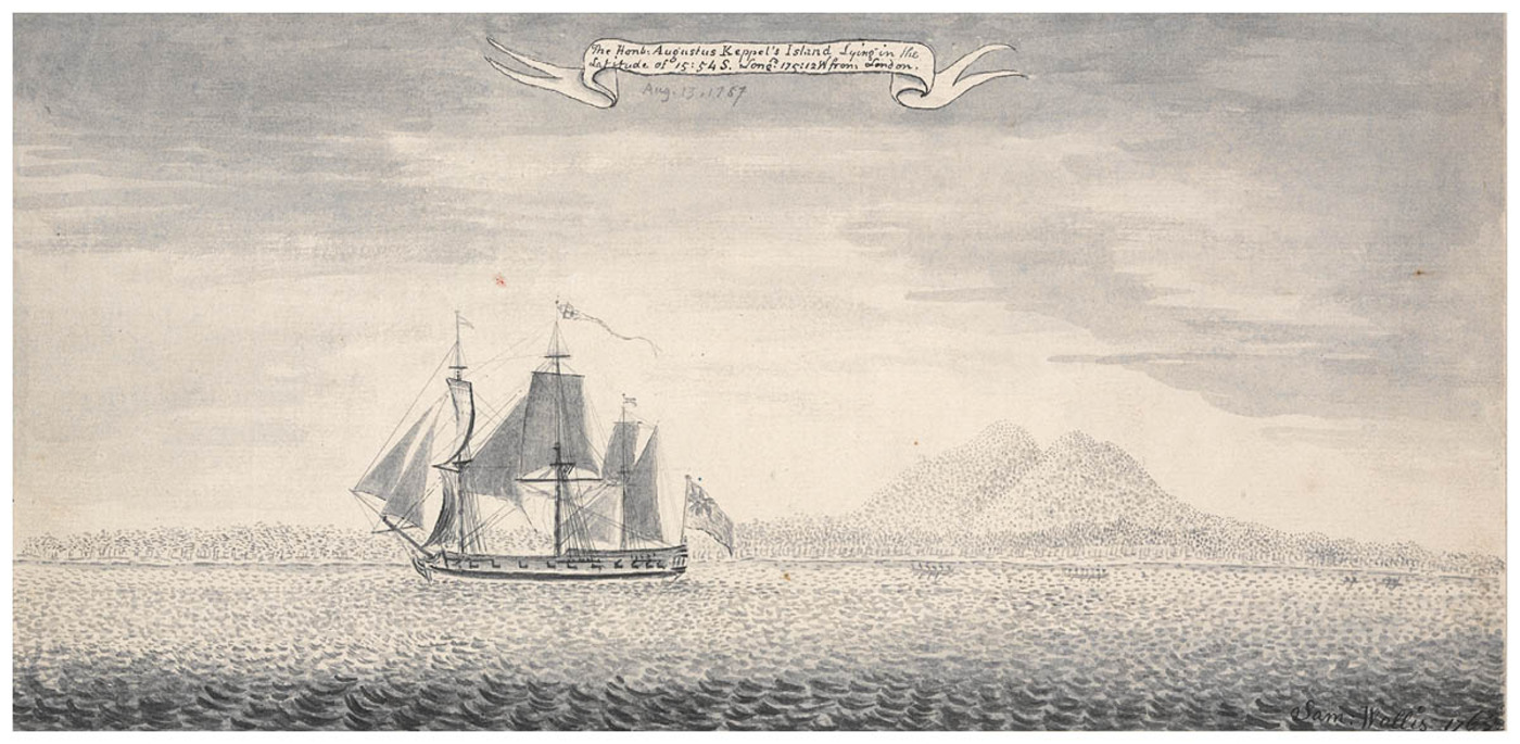 Drawing of Niuatoputapu (island in Tonga) by Samuel Wallis. He named the island Admiral Keppel's Island after Augustus Keppel. The HSM Dolphin is also visible.